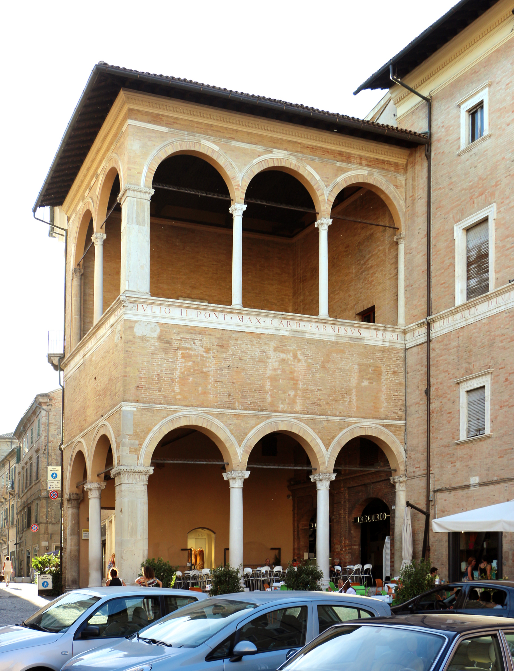 Buildings in Macerata